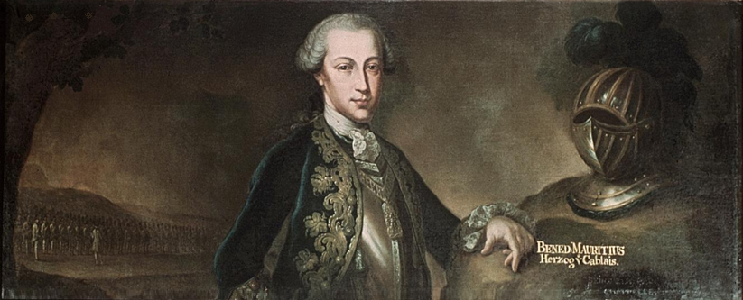 Bildnis des Herzogs Benedikt Moritz von Chablais (1741-1808) vor einer Szene mit Soldaten